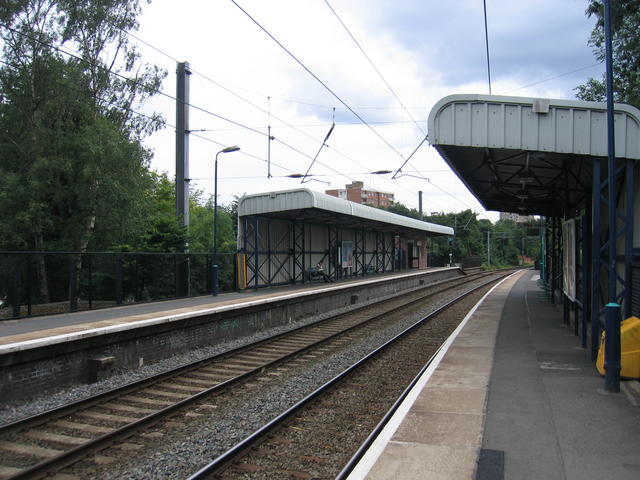 Chester Road Station